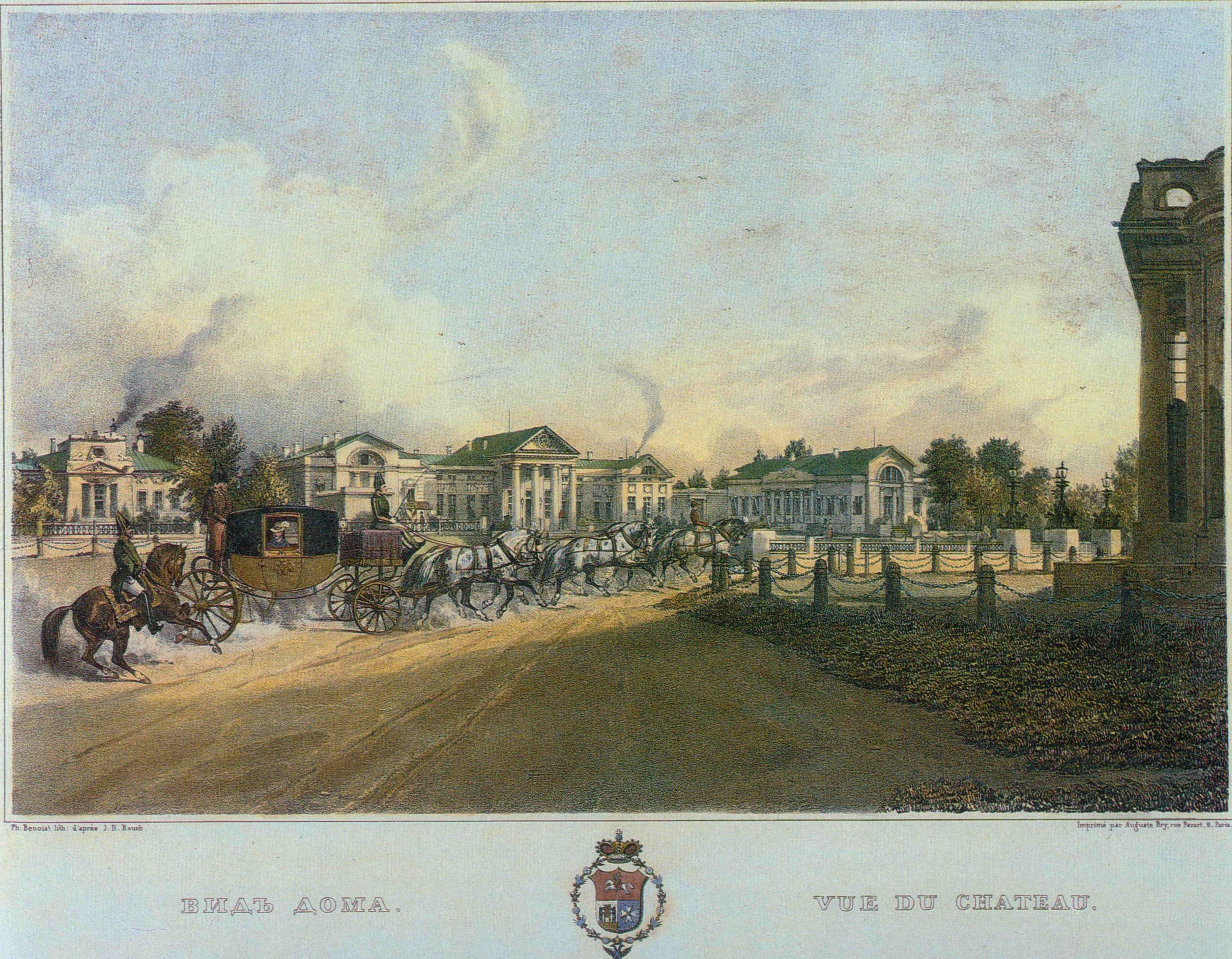 Vlakhernskoye village (now Kuzminki). View of main house. Moscow, Russia. A lithoprint by Ph. Benois after drawing by J.N. Rauch, N.A. Naidyonov's album printed in the 19th century.